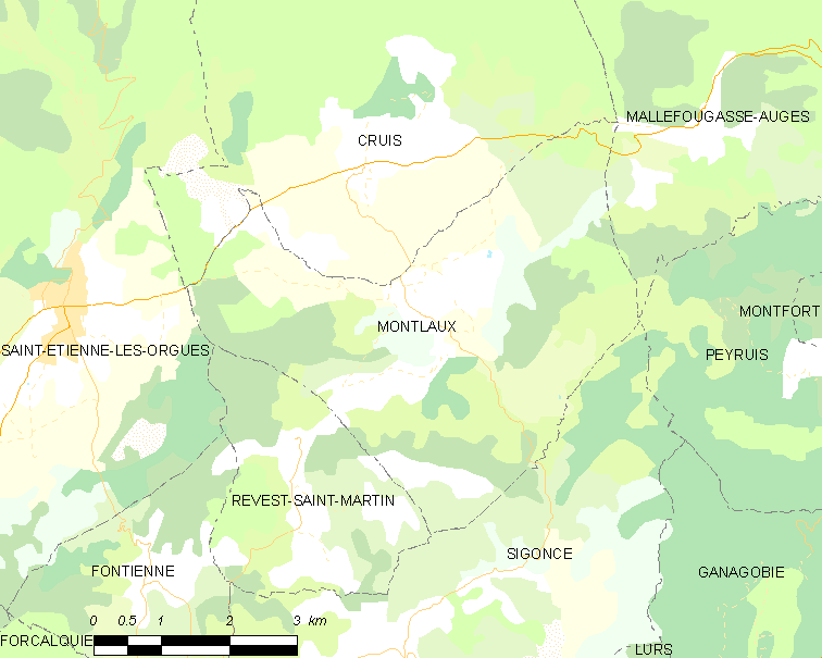 Map commune FR insee code 04130.png Légende